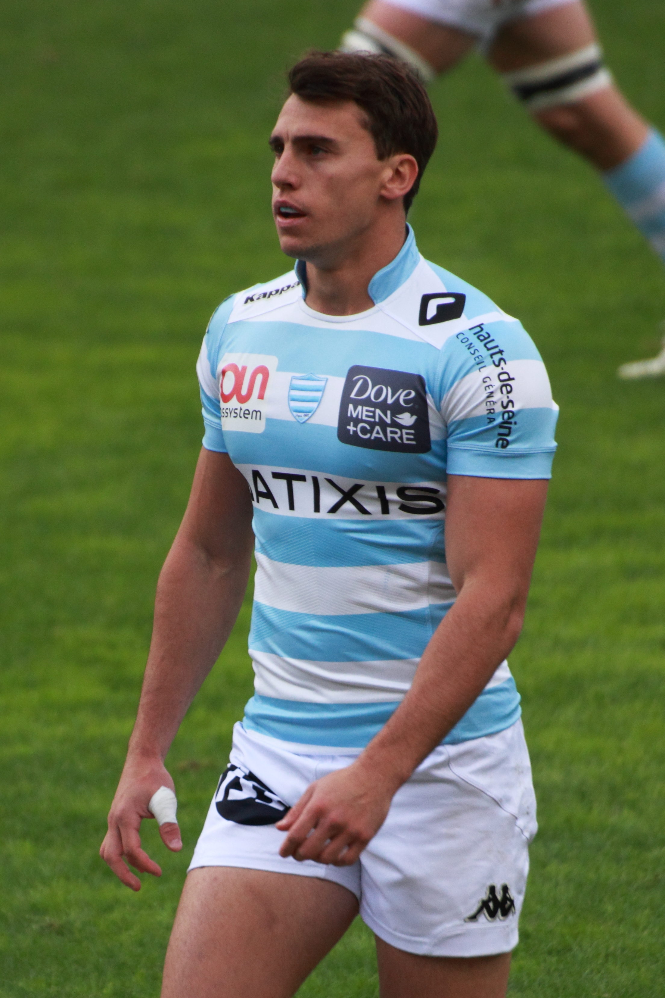 Top 14 — 1 November 2012, Stade Ernest-Wallon. Match between: Stade toulousain — Racing Métro 92